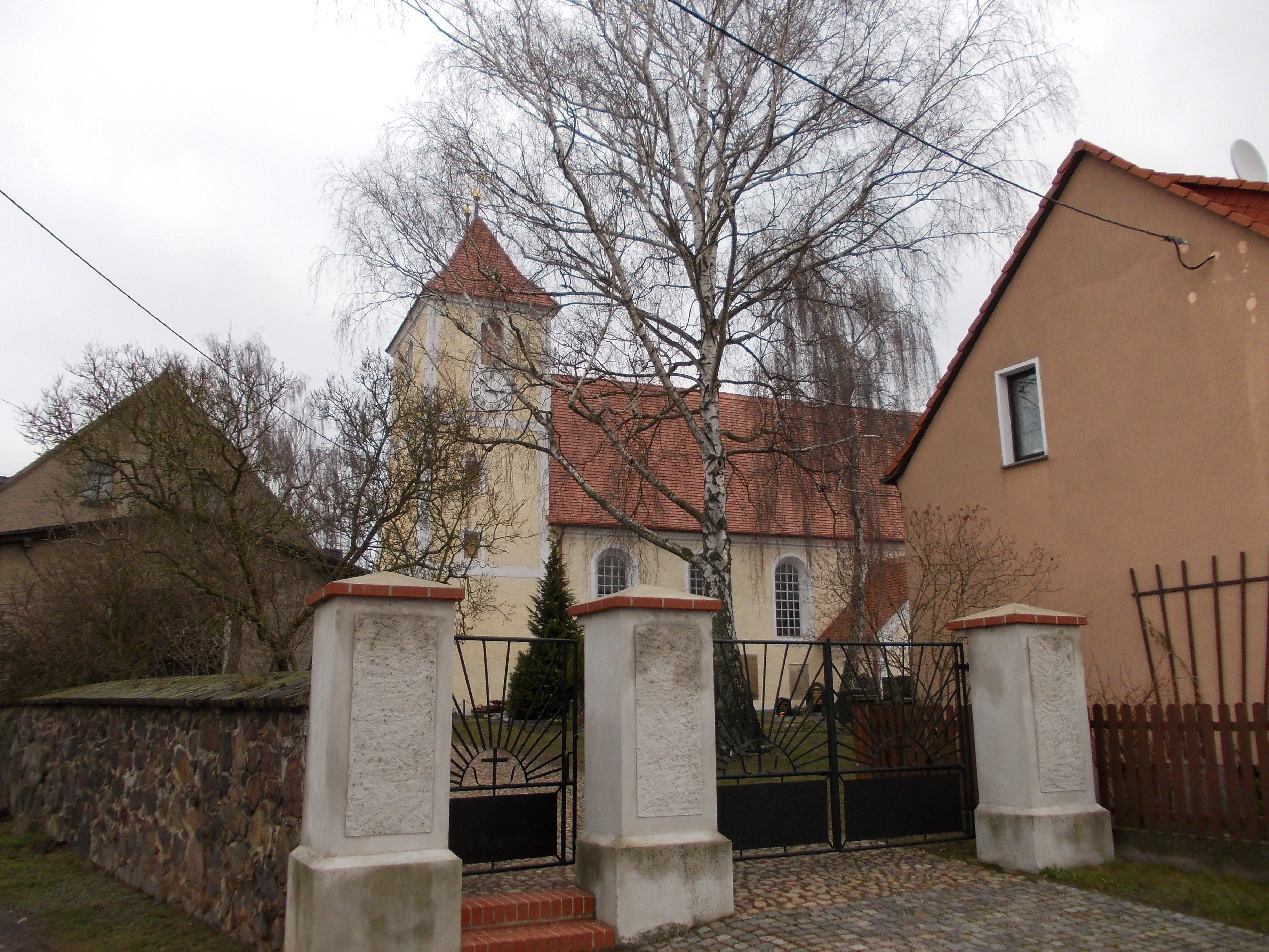 Church of the village of Weltewitz (Jesewitz, Nordsachsen district, Saxony)